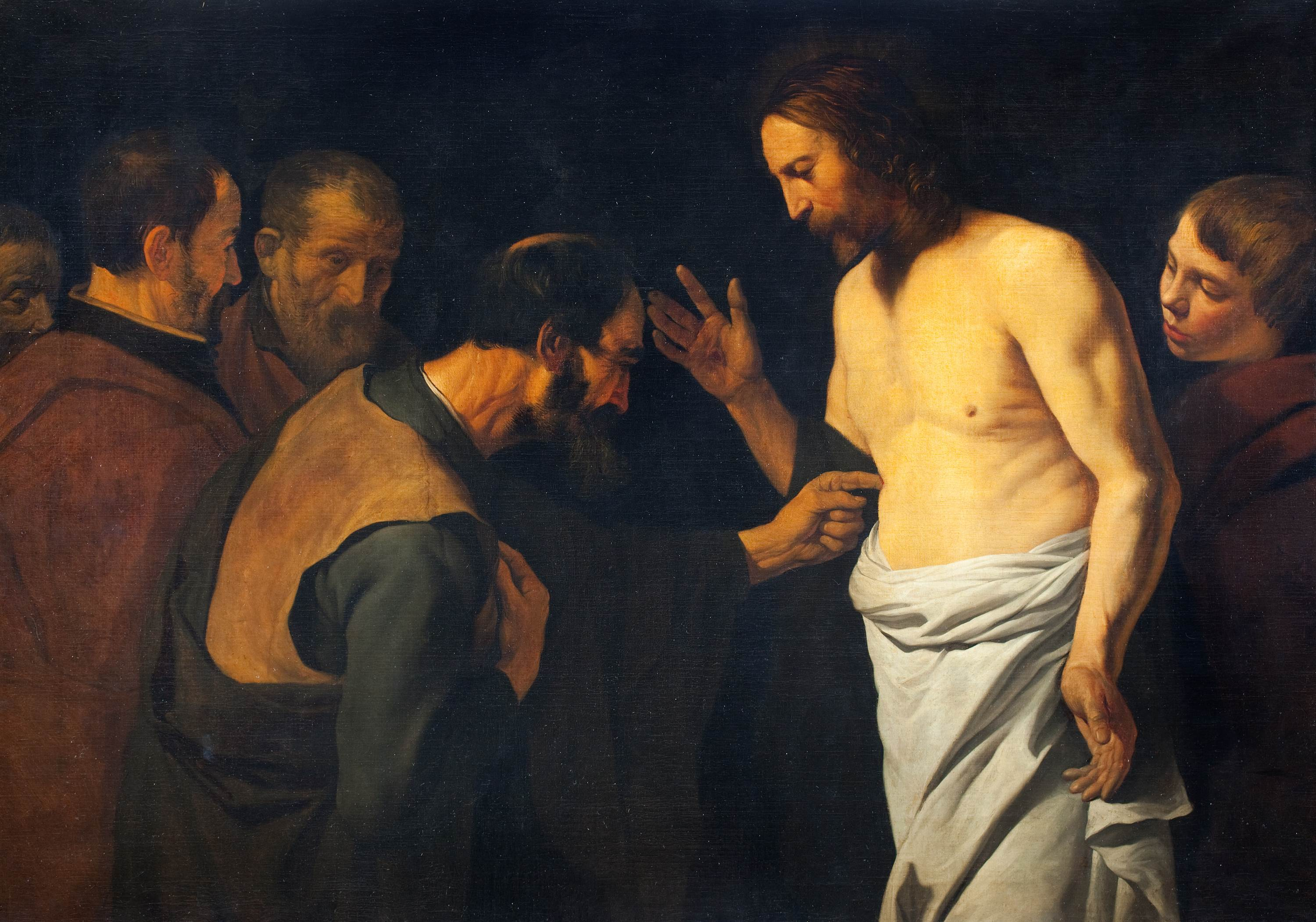 Doubting Thomas. The painting was fitted with a new frame in 2013.